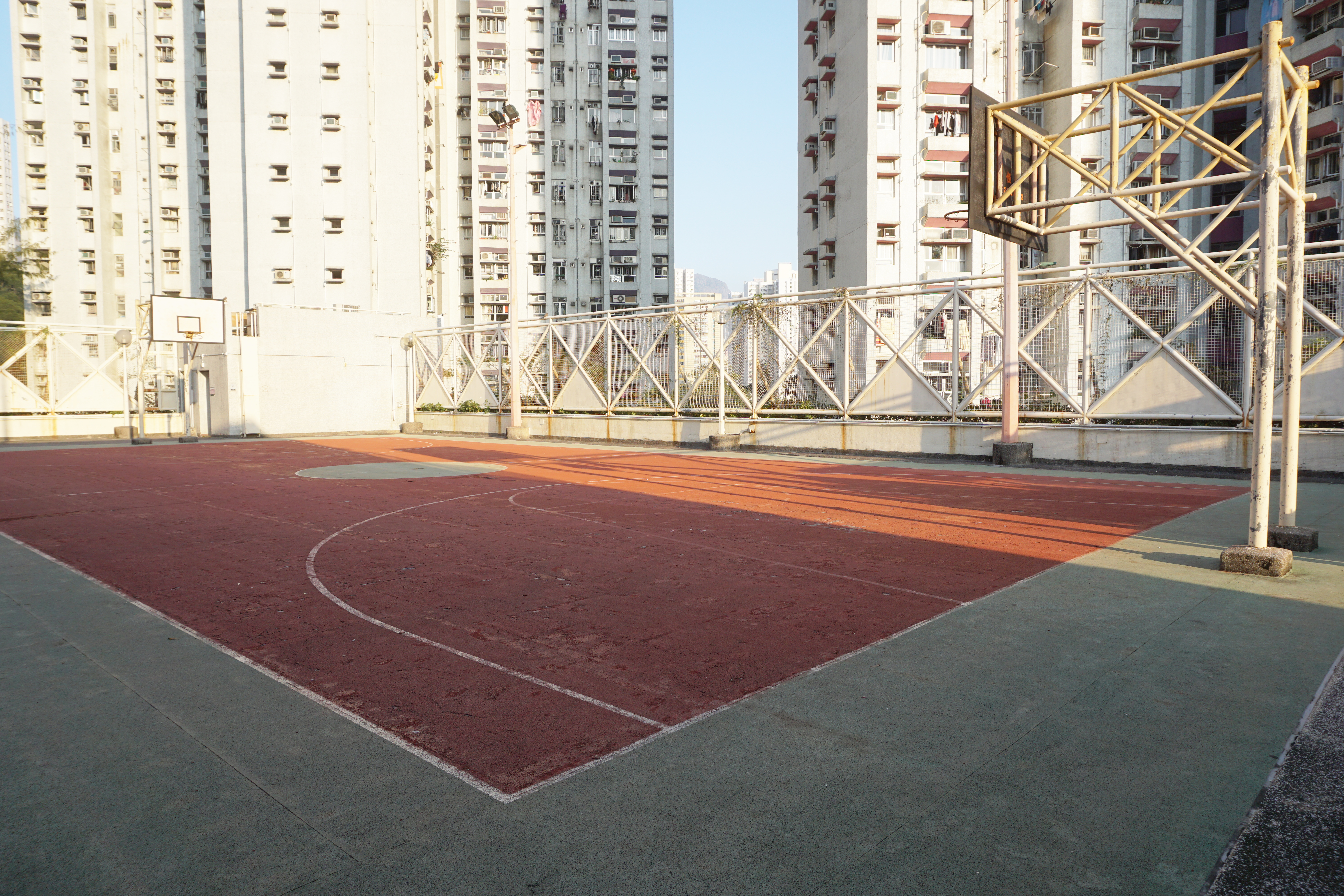 Tin Wang Court in Chuk Yuen, Hong Kong.